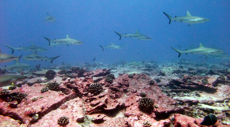 Large numbers of grey reef sharks (Carcharhinus amblyrhynchos) were observed at Jarvis Island during the 2010 Pacific RAMP expedition of the NOAA Ship Hi'ialakai.